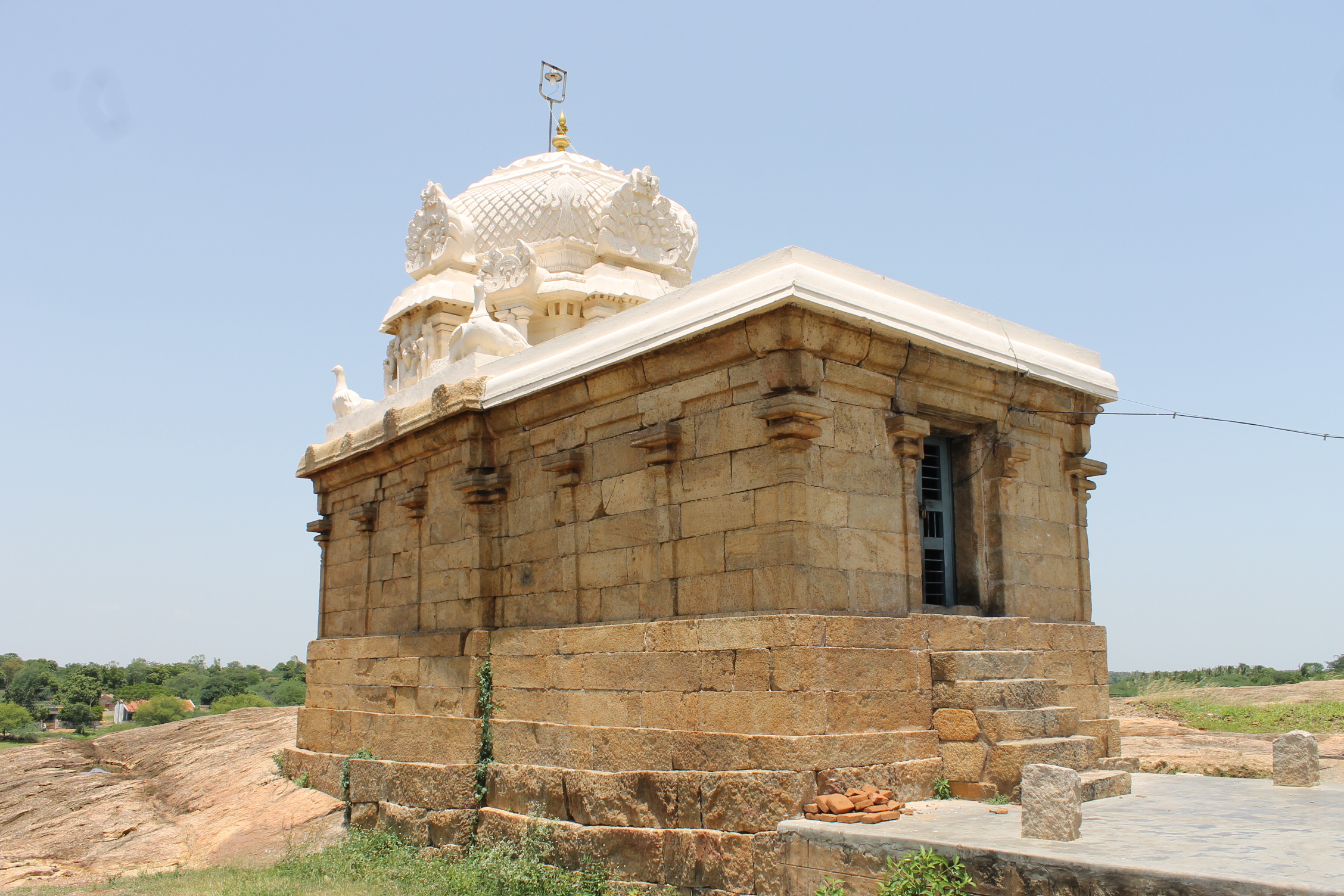 "Siva Temple on mountain". Location: Kunnandarkoil, Pudukottai district, Tamil Nadu, India.